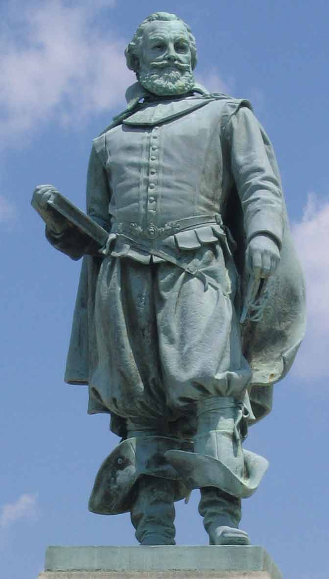 Statue of John Smith at Jamestown VA